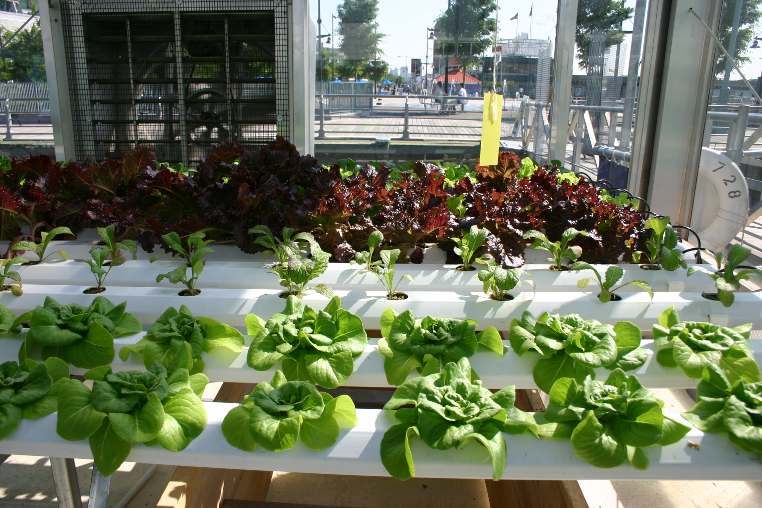 Hydroponics with leafy vegetables.